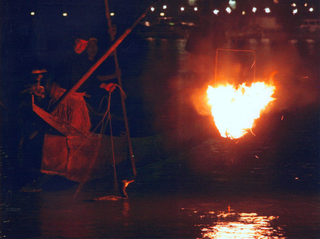 Japanese man using trained bird for ancient night fishing technique. Photo taken in Japan 2006 by myself (Bantosh).